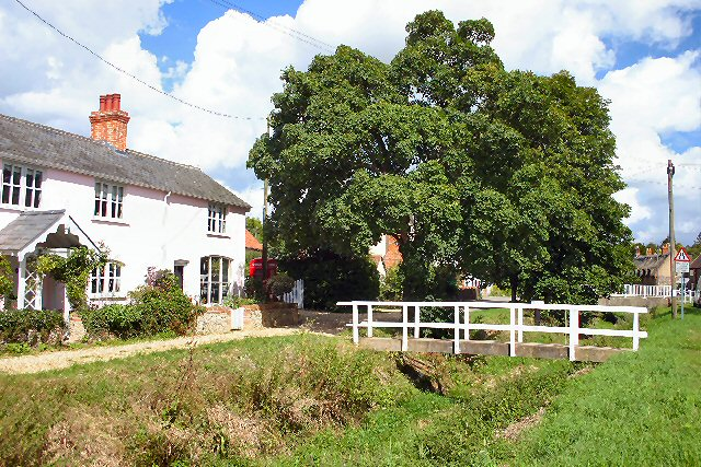 River Kennett at Dalham. The river is usually dry in the summer, this year being no exception.